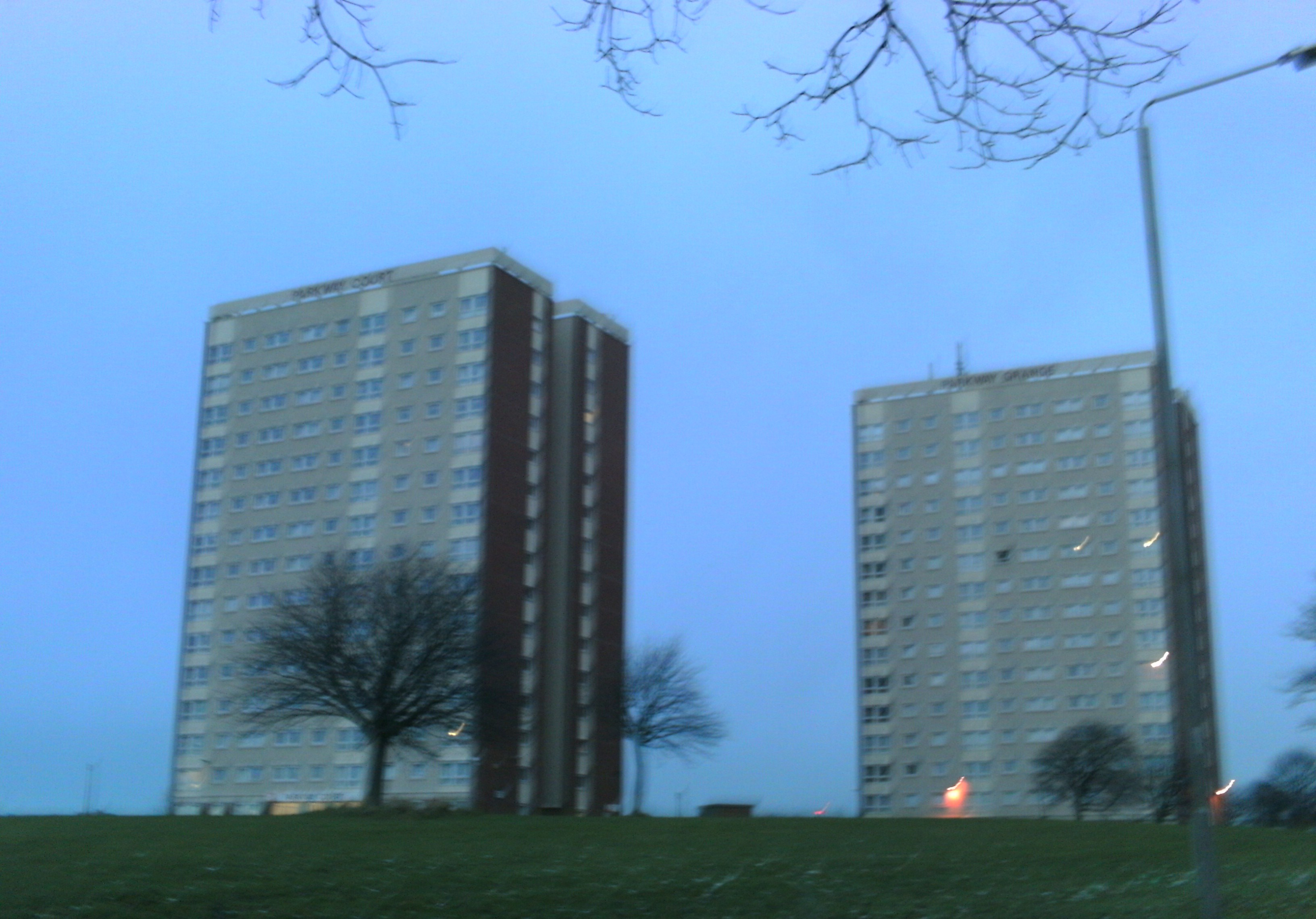 Parkway Court and Parkway Grange Flats, Seacroft, Leeds, UK